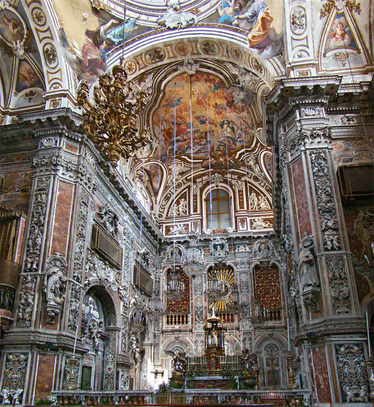 Church of Santa Caterina, Palermo, Sicily, Italy. The sanctuary.